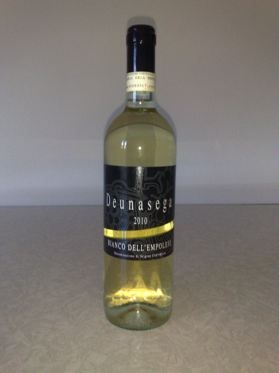 A bottle of white wine with a typical vulgar word of the dialect of Empoli (Tuscany)